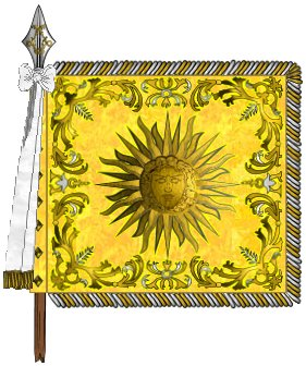 Standard of the 3ème Compagnie Française of the French Gardes du Corps. Created by PMPdeL. N.B.: since there was a 1ère Compagnie Écossaise which had precedence over the 1ère Compagnie Française, some authors designate the 3ème Compagnie Française simply as the 4ème Compagnie (overall ranking). Courtesy of Kronoskaf. Licensing